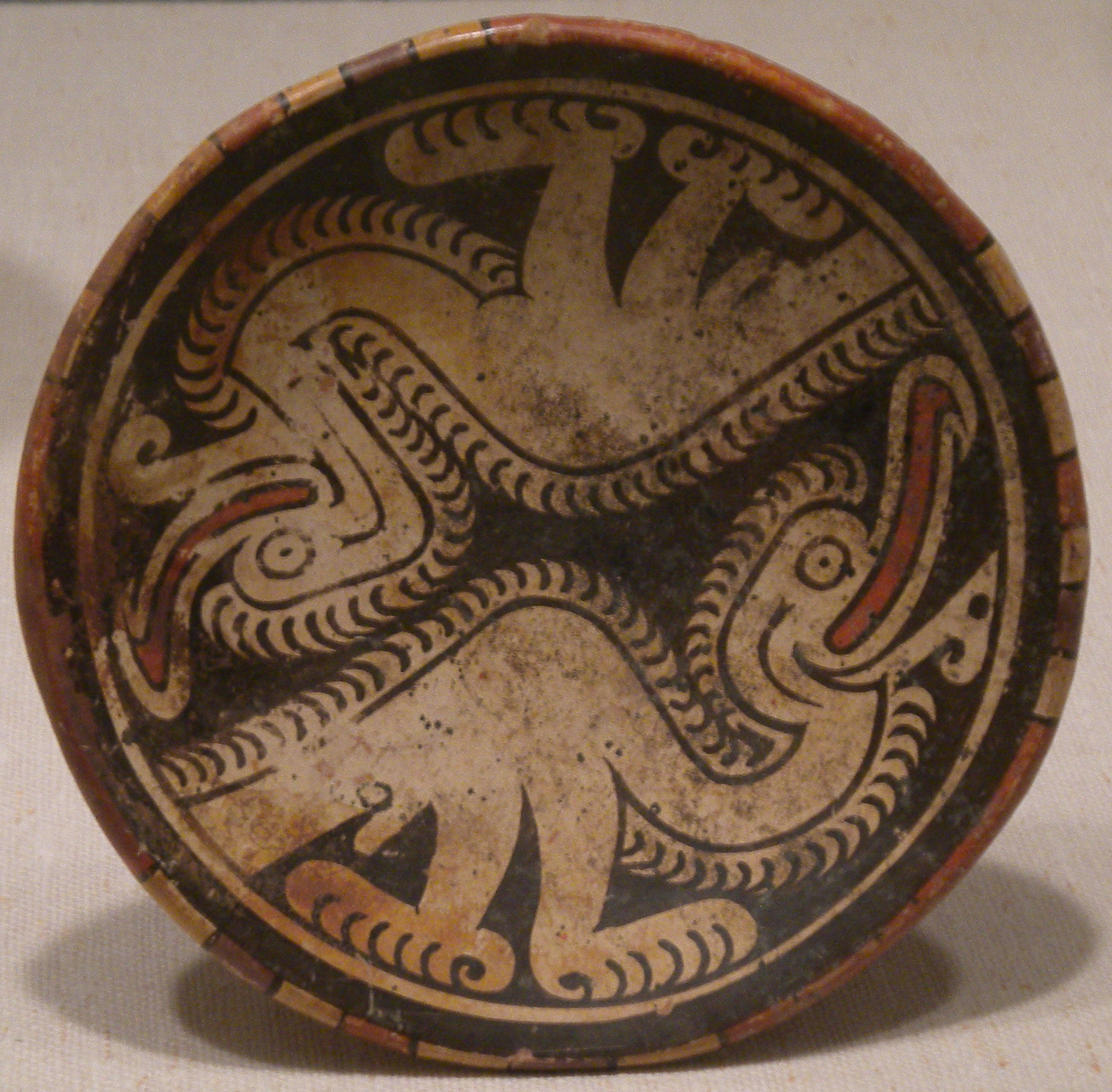 Pedestal Plate (5th-8th century)- Panama, Conte. For more information see the full catalog entry.